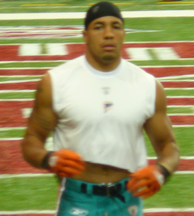 If used somewhere other than Wikipedia, Nelson, by name.